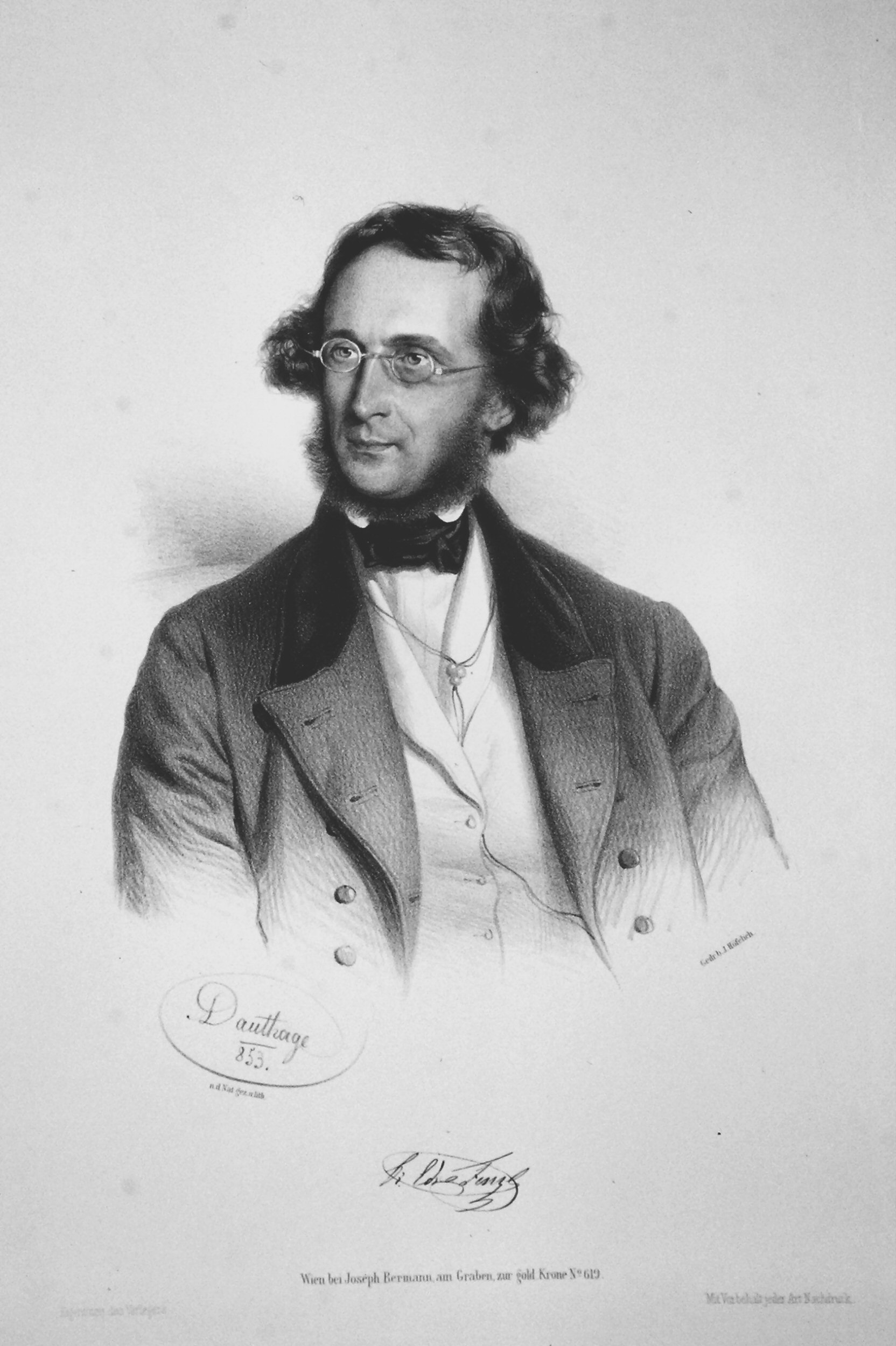 Eduard Fenzl (1808-1879), Austrian Botanist Lithograph by Adolf Dauthage, 1853